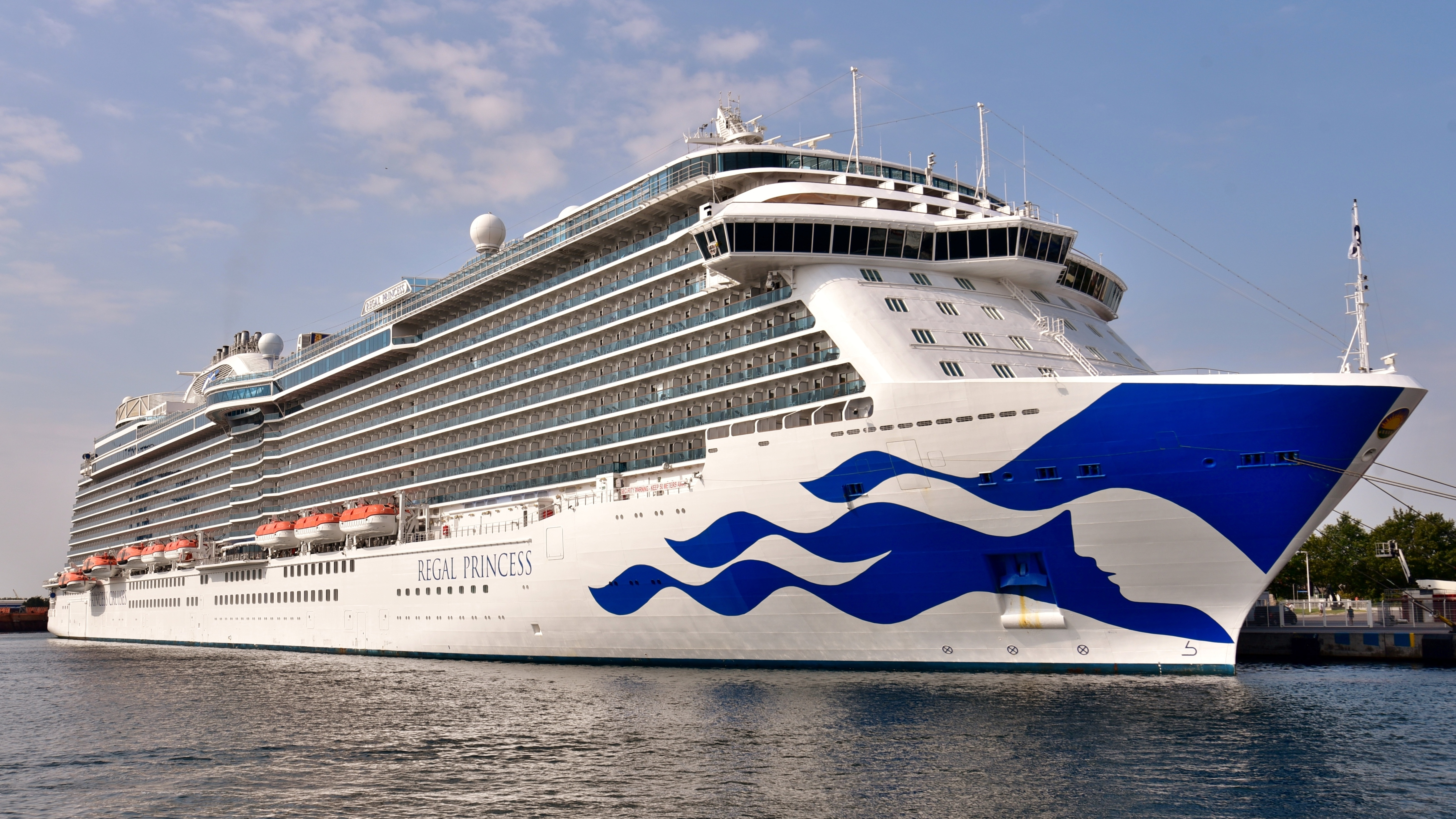 Cruise ship Regal Princess berthed at the cruise center in Warnemünde, Germany